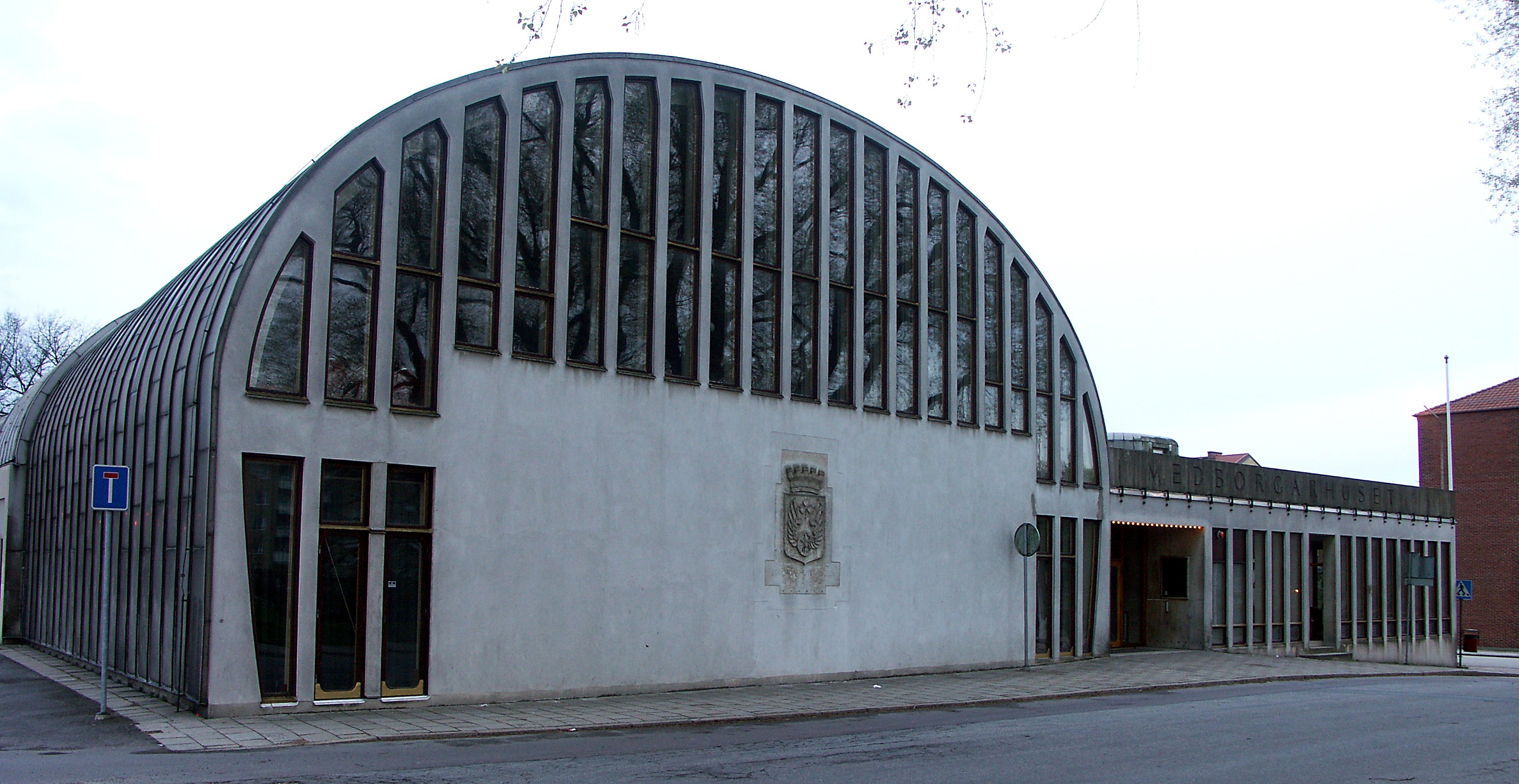 The citizen hall of Eslöv, Sweden.